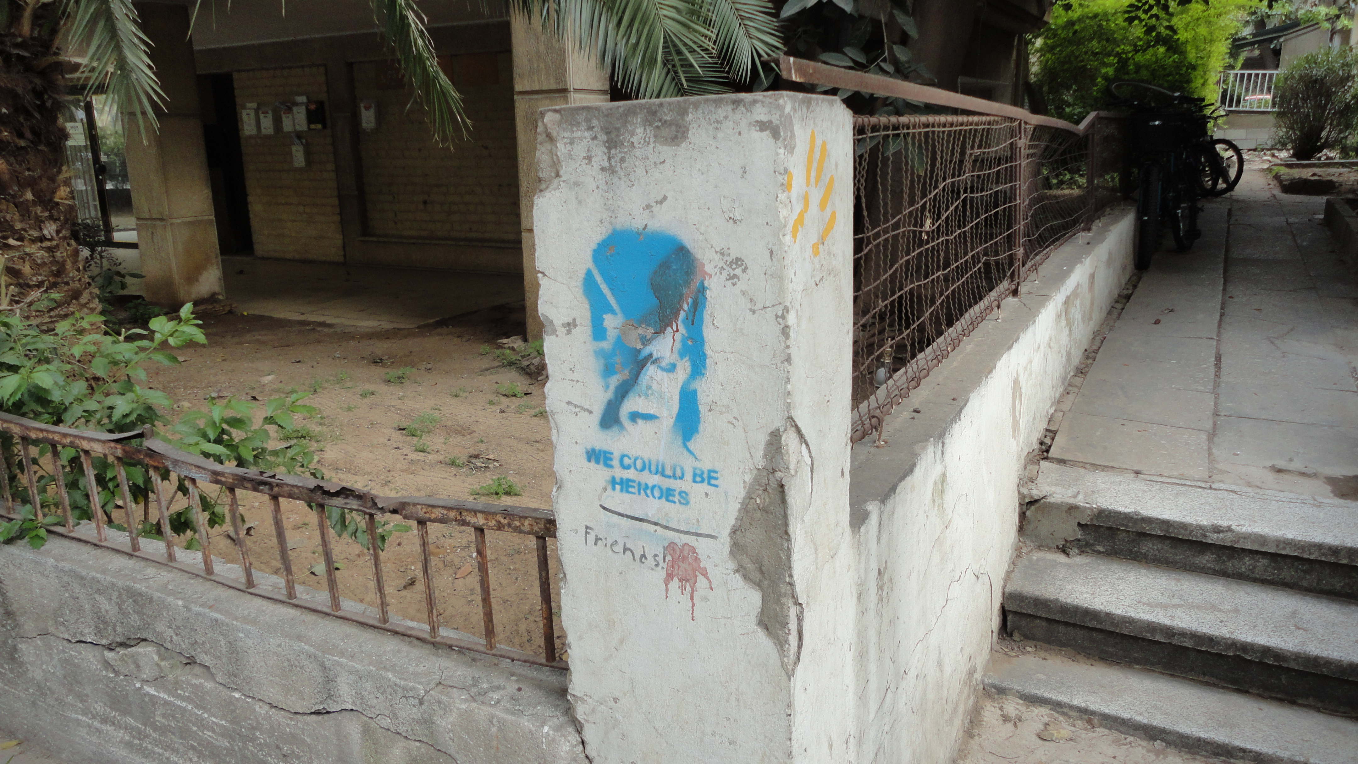 Graffiti of David Bowie at Gordon Street